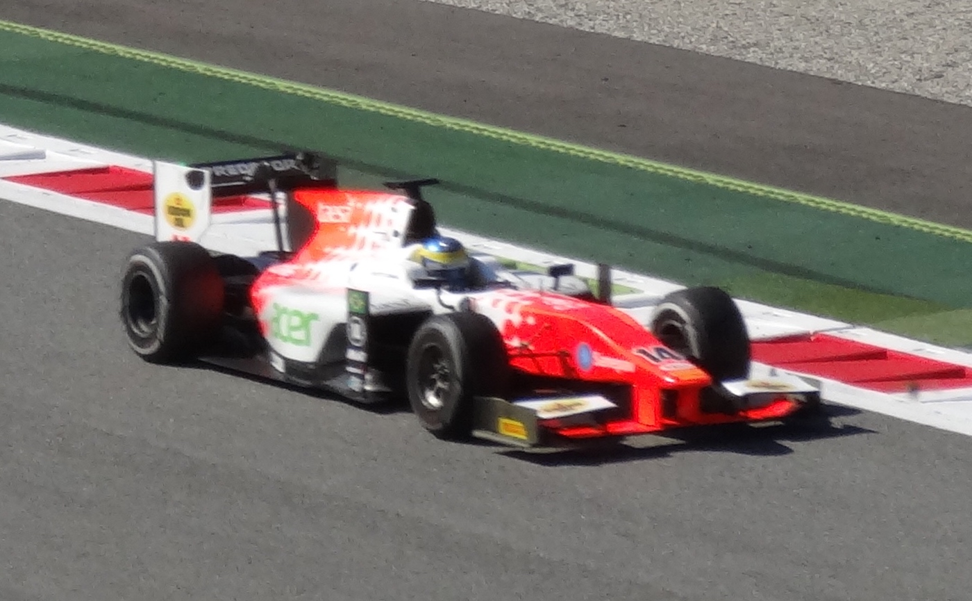 Sérgio Sette Câmara Monza F2 2017